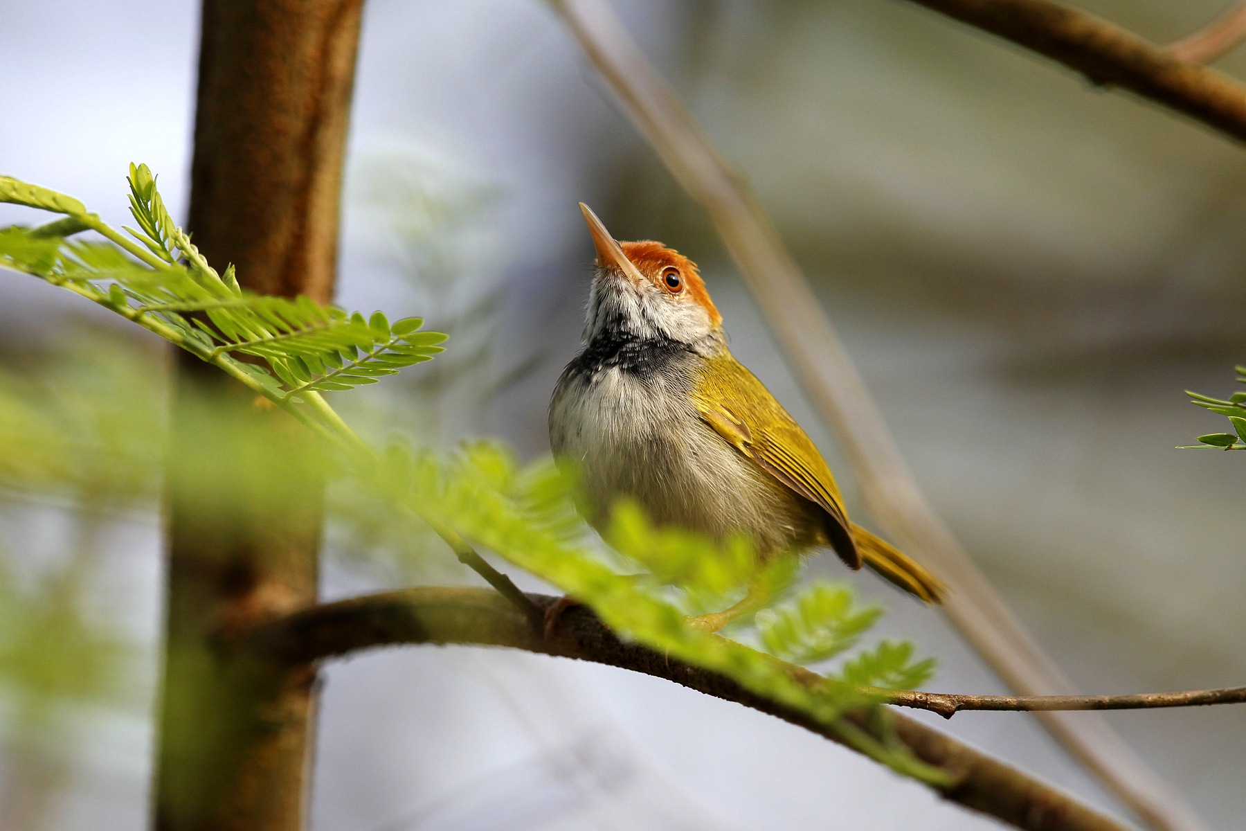 黑喉缝叶莺 Dark-necked Tailorbird (Orthotomus atrogularis) — at Kaeng Krachan National Park.